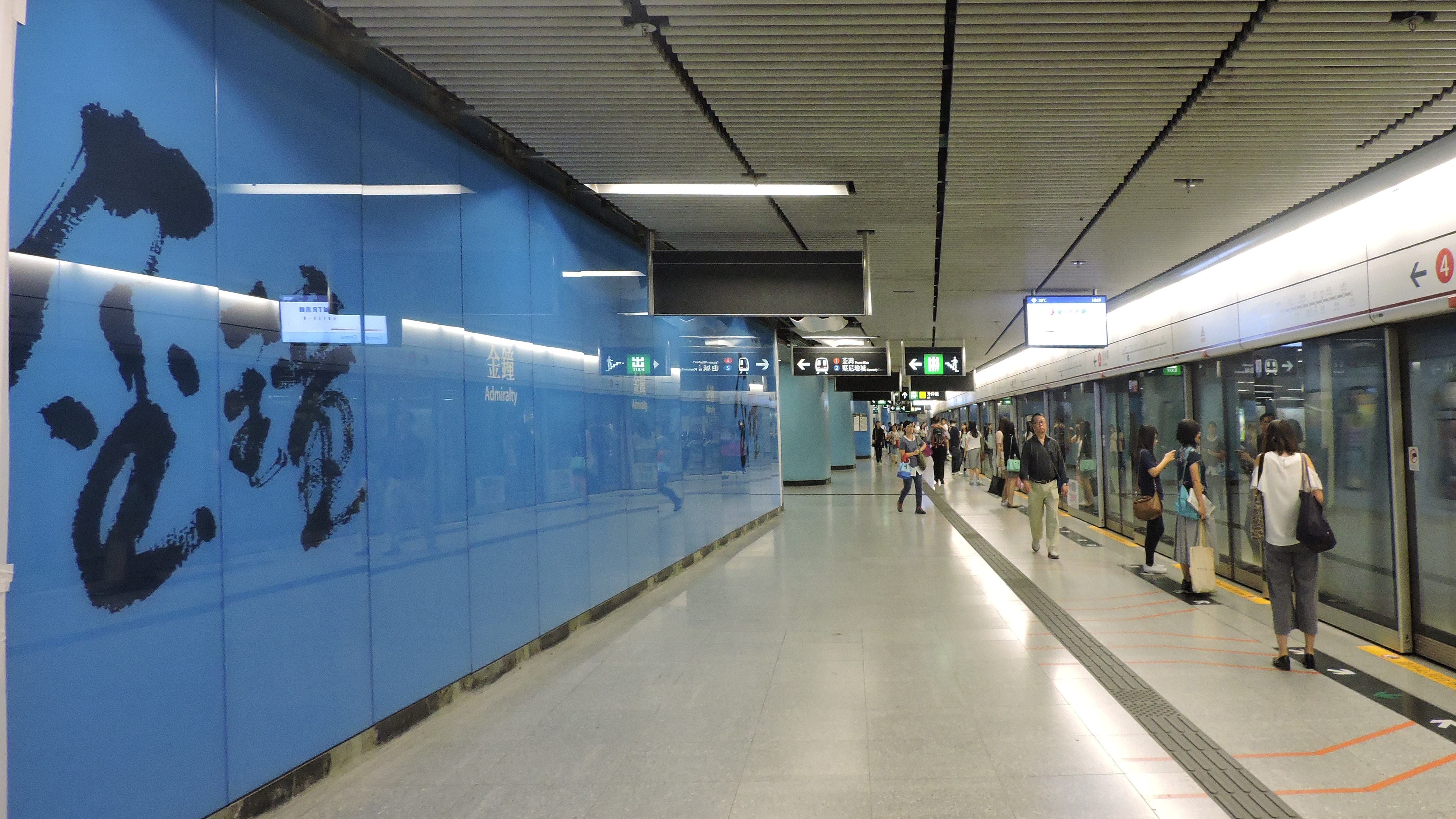 Admiralty Station Platform 4 2016